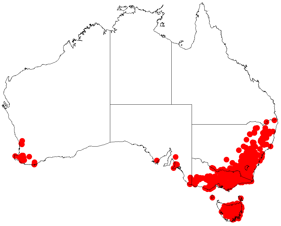 Acacia dealbata occurrence data from Australasian Virtual Herbarium downloaded from on 8 December 2018